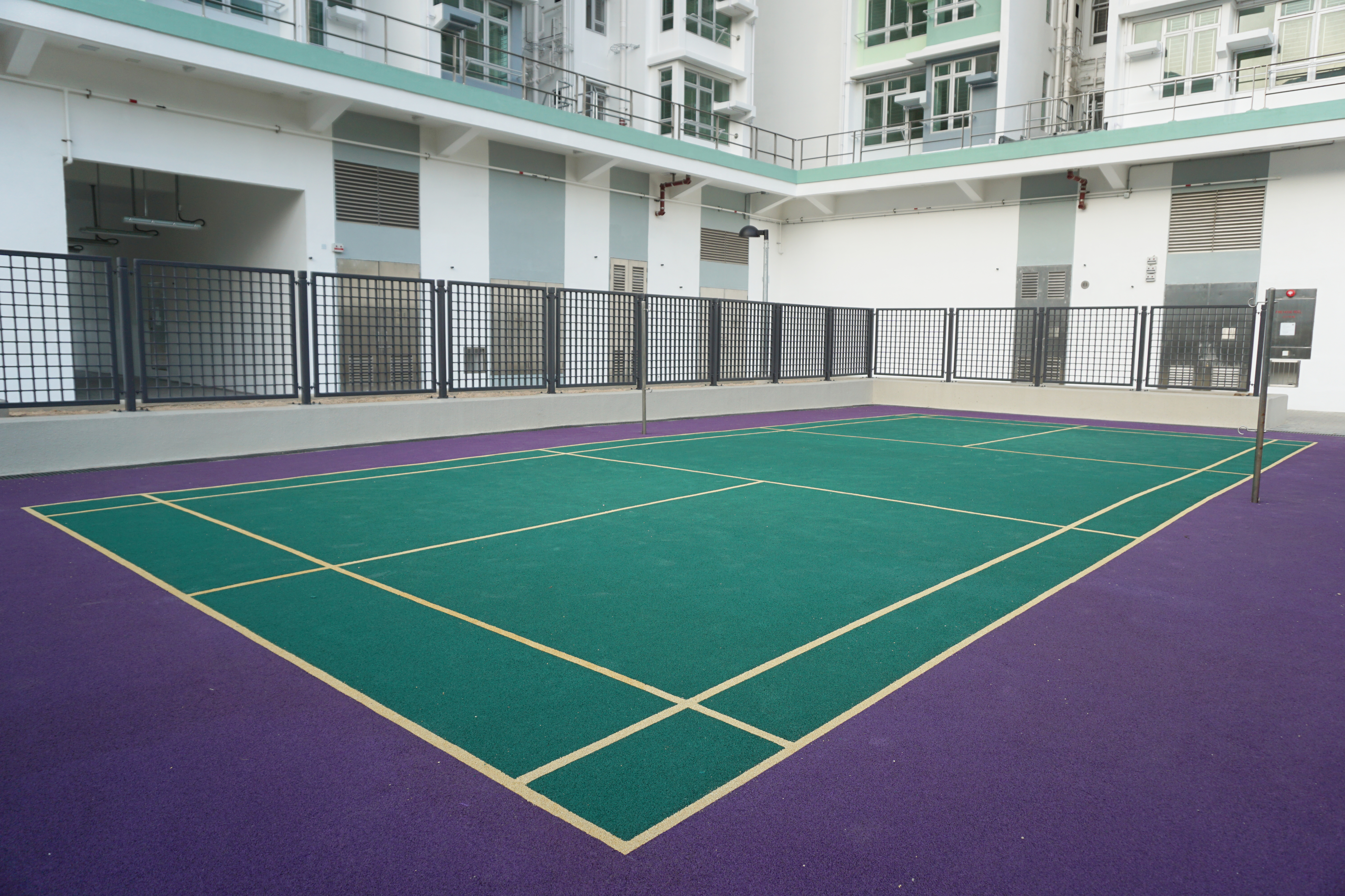 Mun Tung Estate in Tung Chung, Hong Kong.